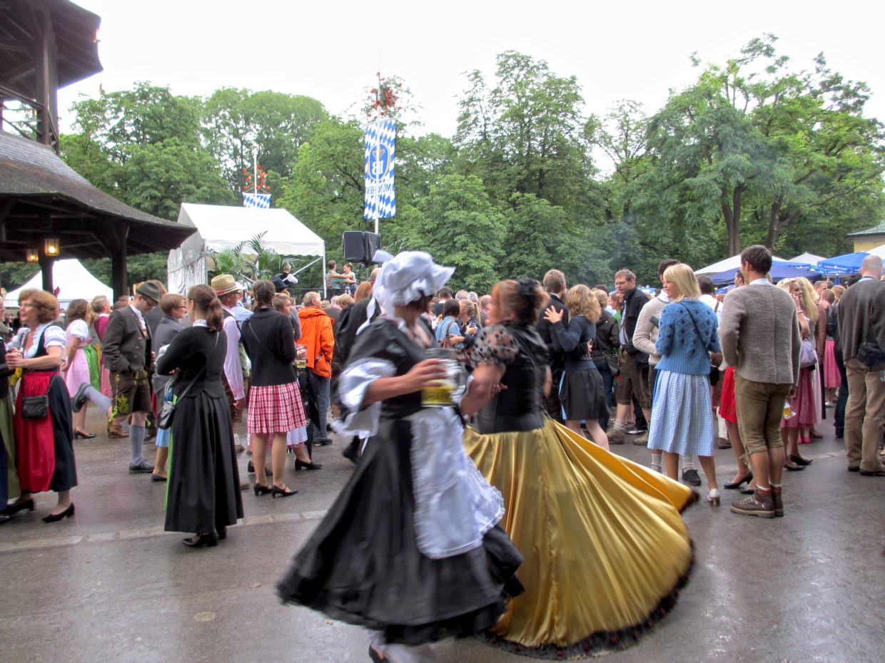 Munich, Park "English Garten": Dancing Festival "Kocherlball"